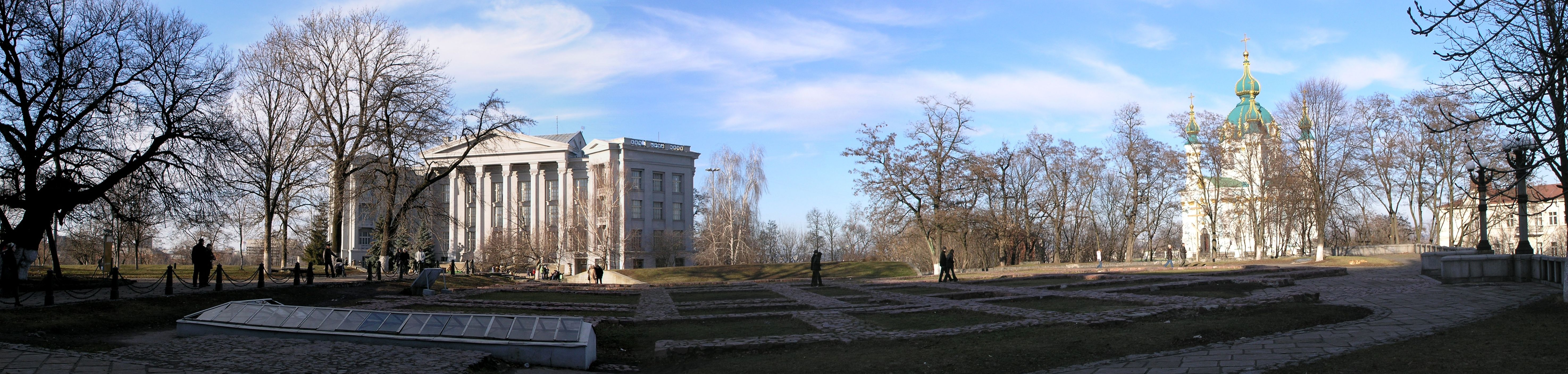 Panorama of a Starokievskaya mountain in Kiev (Ukraine) with the Historical Museum (architect Karakis, Joseph Yulievich) and St. Andrew's Church (designed by Rastrelli, Bartolomeo Francesco)